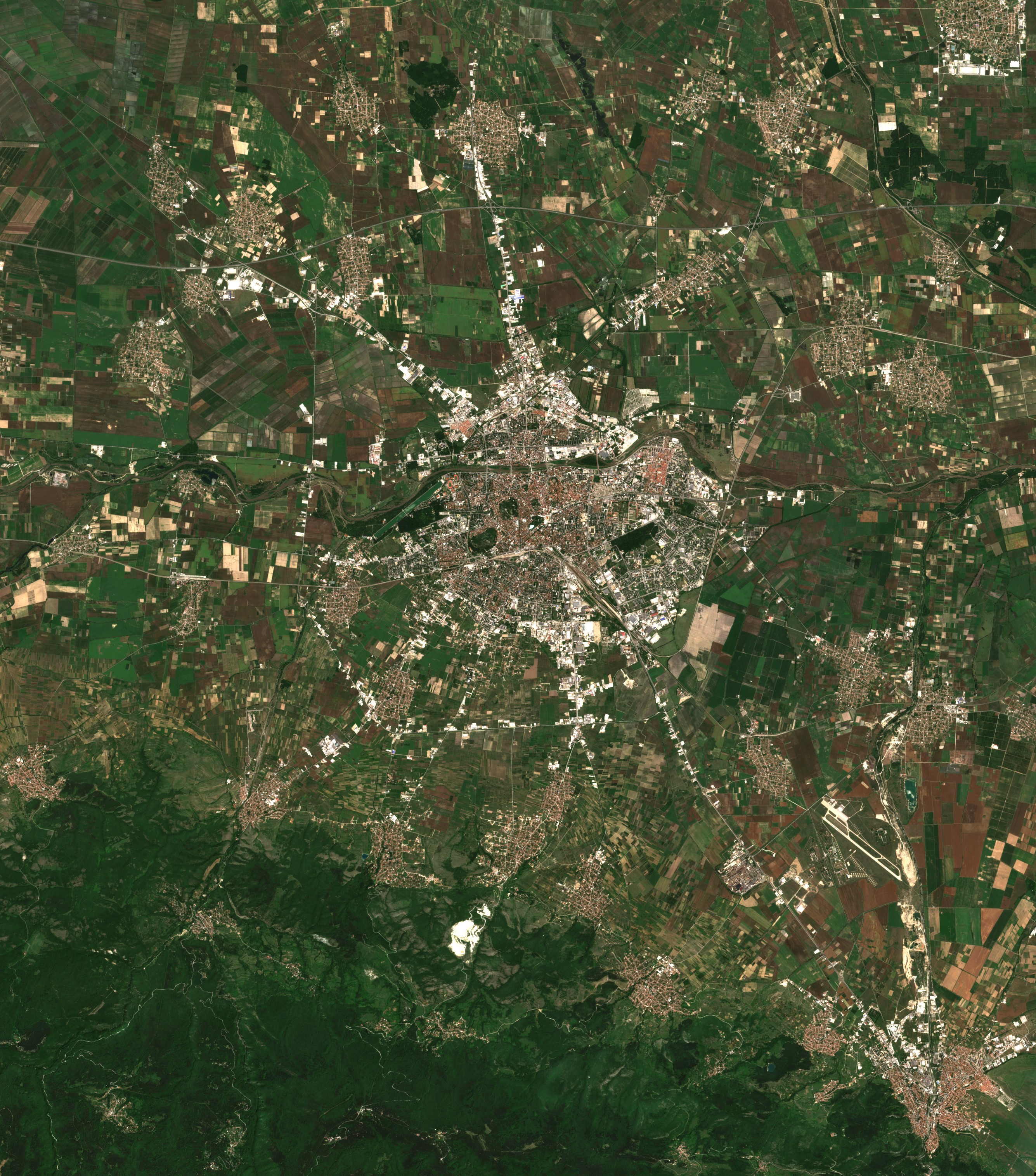 Plovdiv, Bulgaria as seen by Sentinel-2 satellite, 08 June 2019